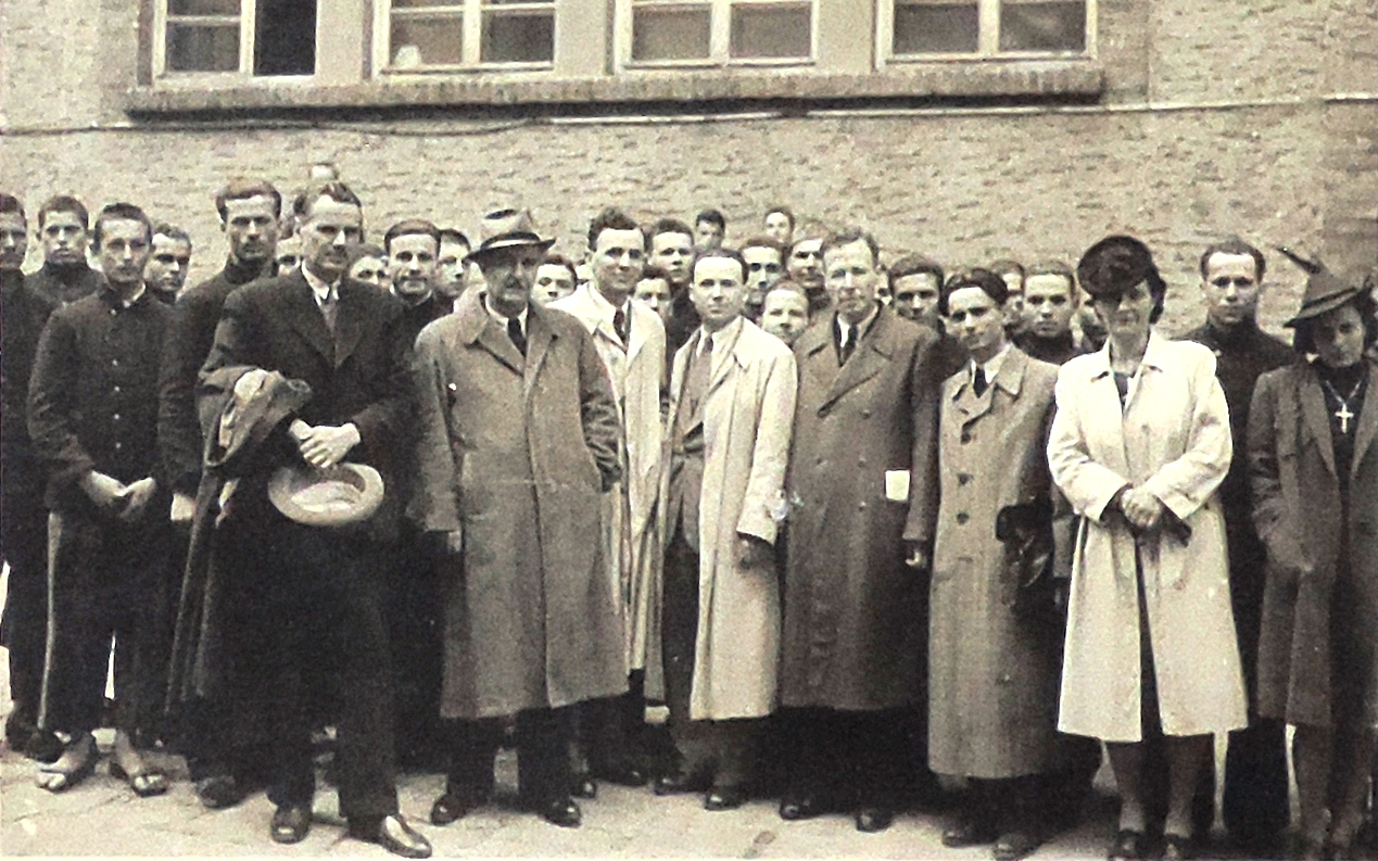 Bulgarian writers Ran Bosilek, Trayko Simeonov, Atanas Dushkov, Lachezar Stanchev, Nencho Savov and Assen Bossev, 1936.